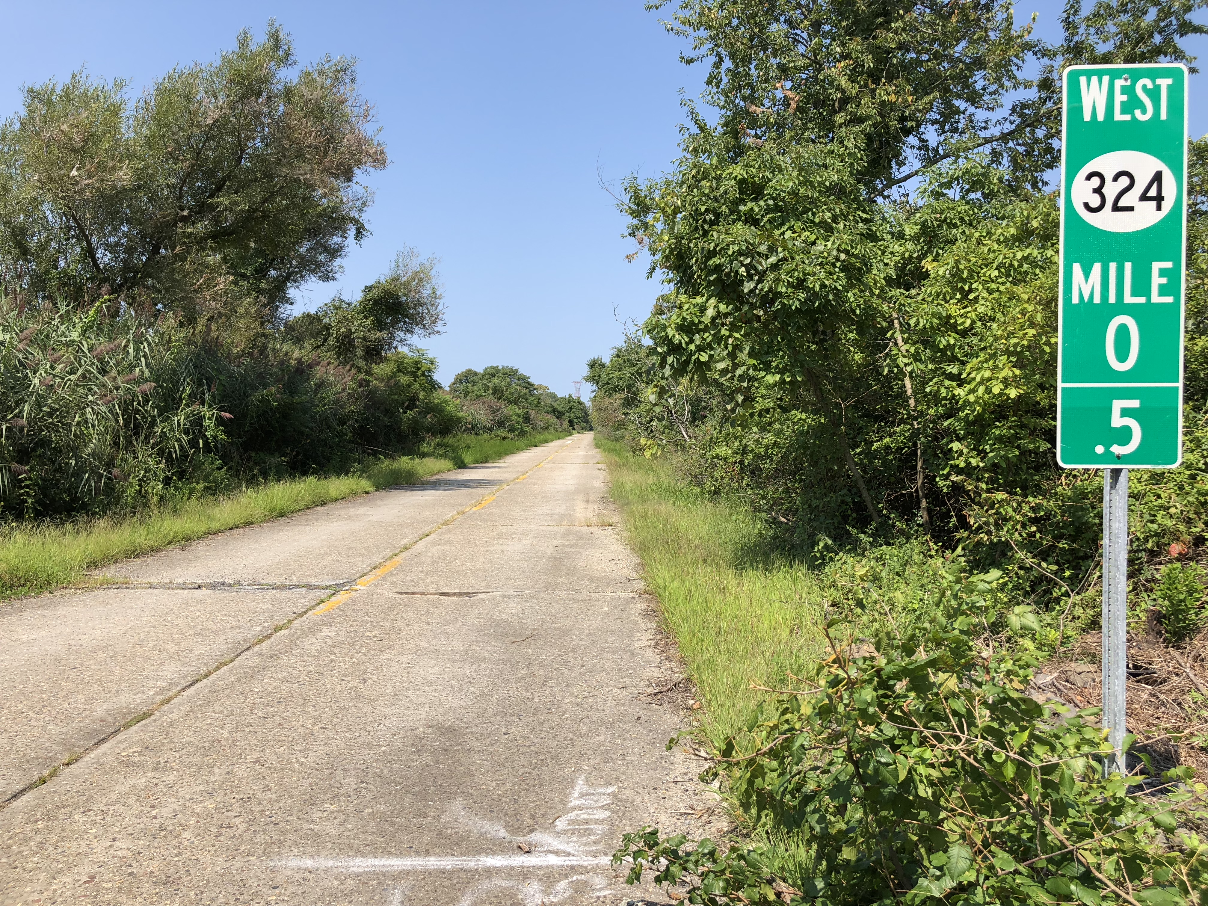 View west along New Jersey State Route 324 (Ferry Road) just west of Buttonwood Lane in Logan Township, Gloucester County, New Jersey